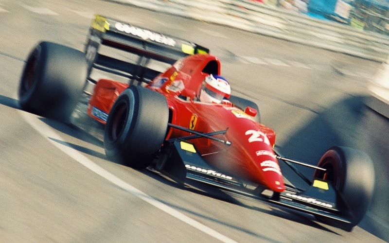 Jean Alesi in the 1992 Monaco GP (Ferrari F92A)